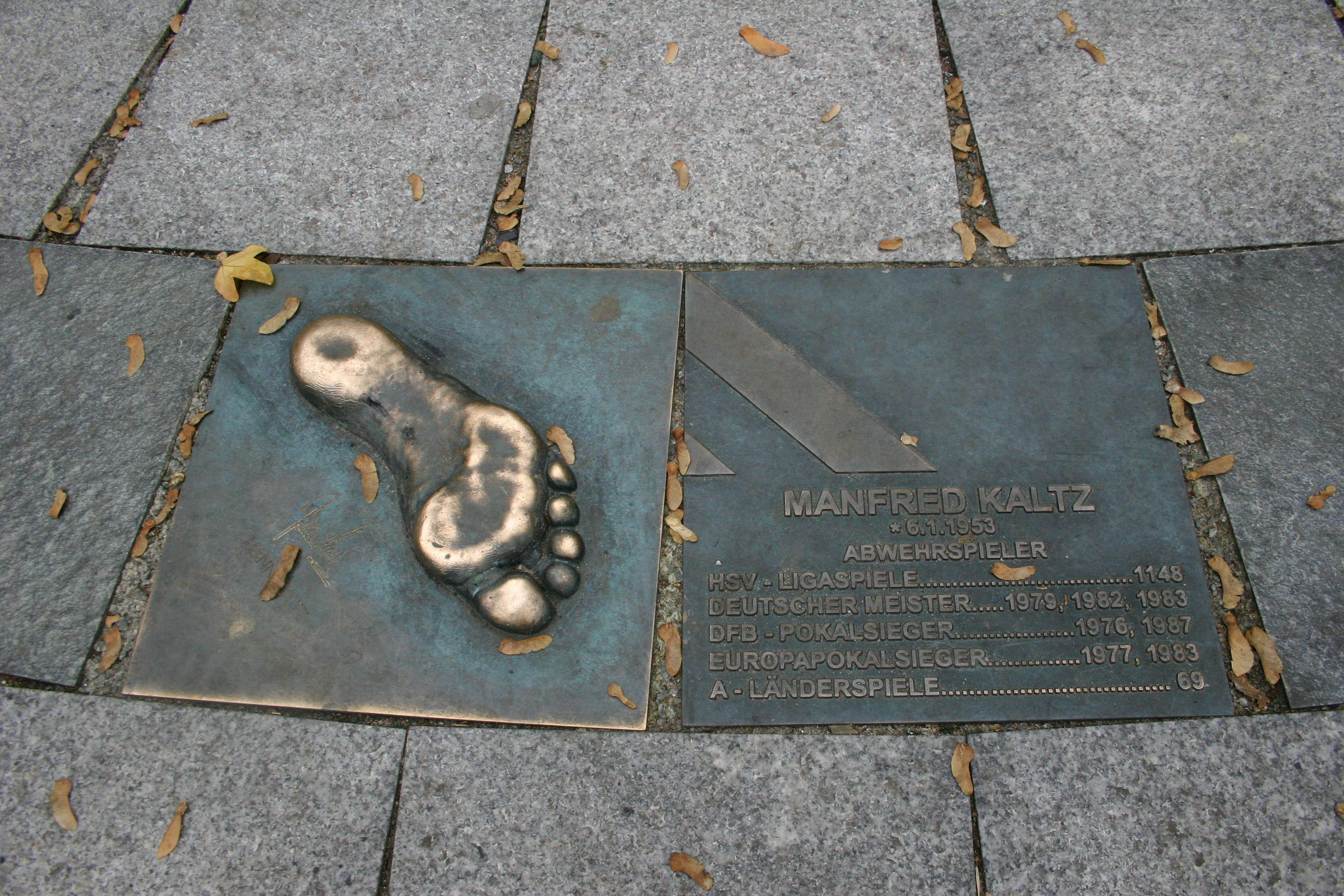 Footprint of Manfred Kaltz on the "walk of fame" in front of the HSH Nordbank arena (Volksparkstadion), home of Bundesliga site Hamburger SV